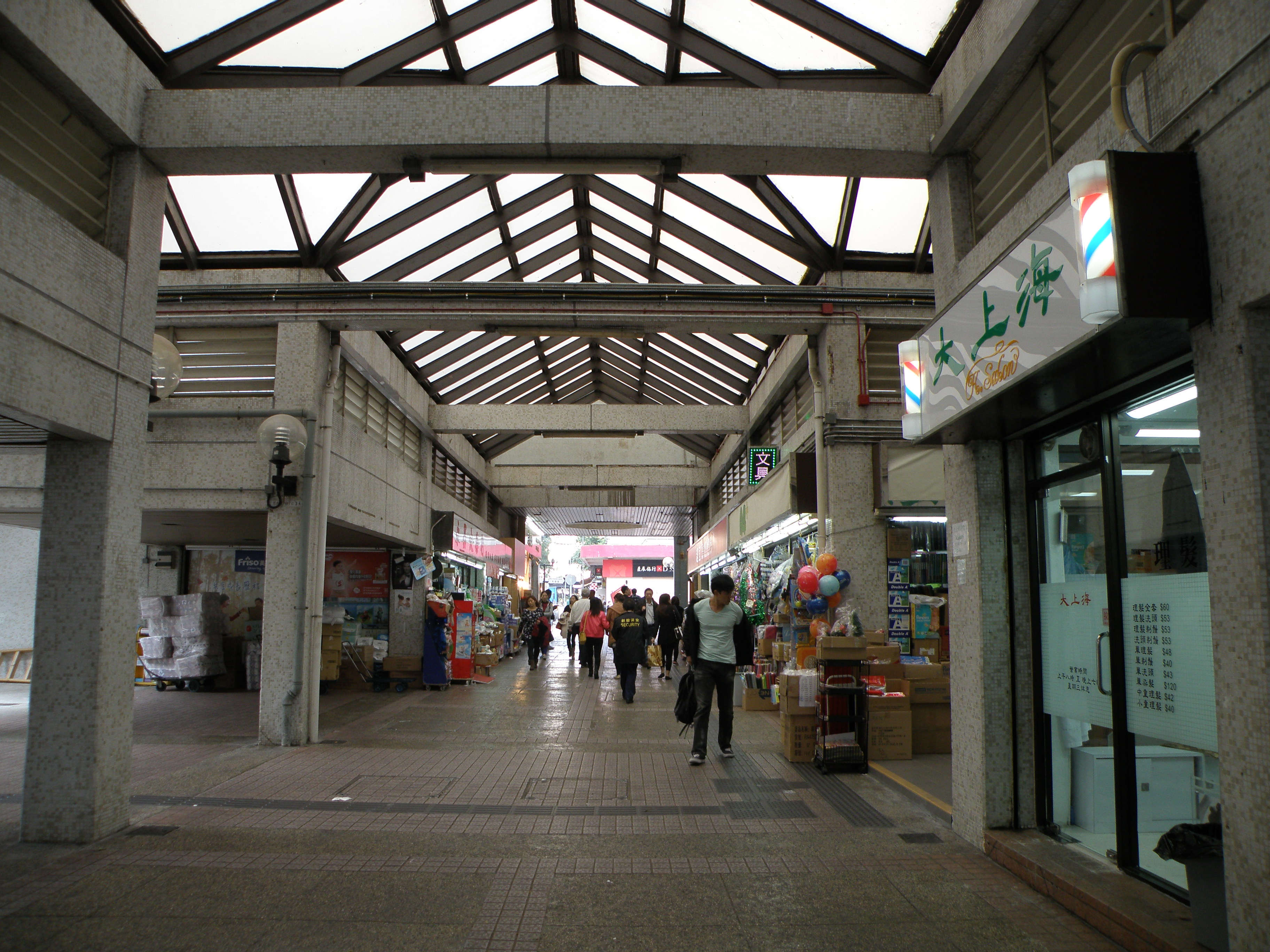 Kwai Hing Shopping Centre in Kwai Chung, Hong Kong.